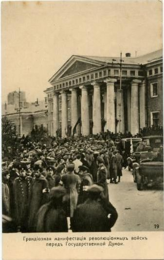 Carte Postale (Open Letter) with view of February Revolution events in Petrograd, Russian Empire